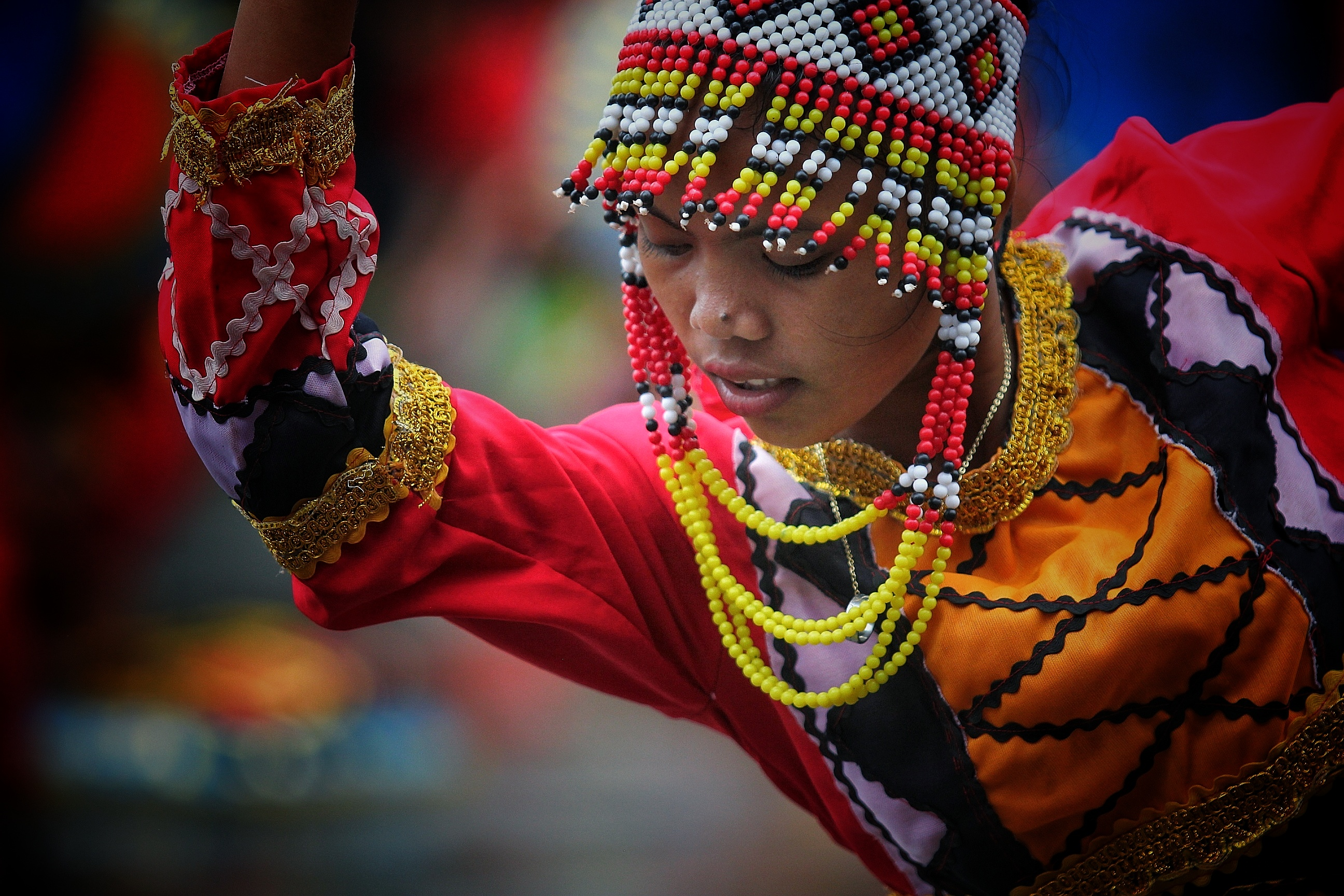 A Manobo girl performing a dance during the Kahimunan Festival in Butuan City, Caraga, Philippines This photo has been taken in the country: Philippines